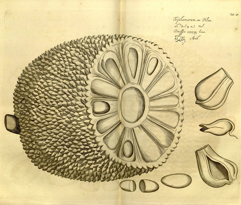 If you can, help make this description accessible to all by translating it into other languages. – Thanks!